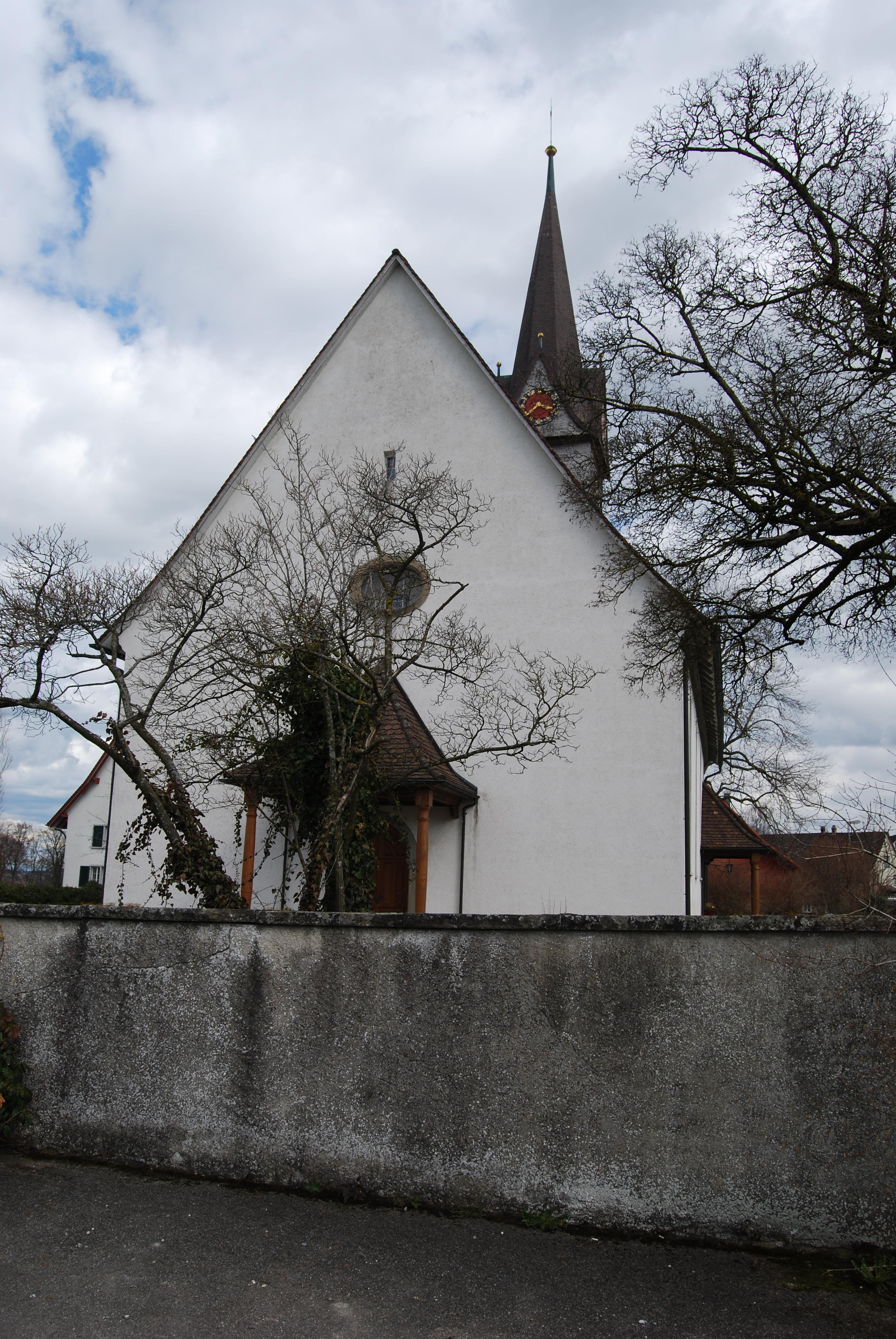 Protestant church of Schönholzerswilen, canton of Thurgovia, SwitzerlandEsperanto: Reformita preĝejo de Schönholzerswilen, Kantono Turgovio, Svislando